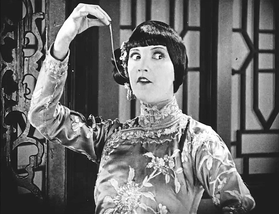 Still from the American drama film East Is West (1922).